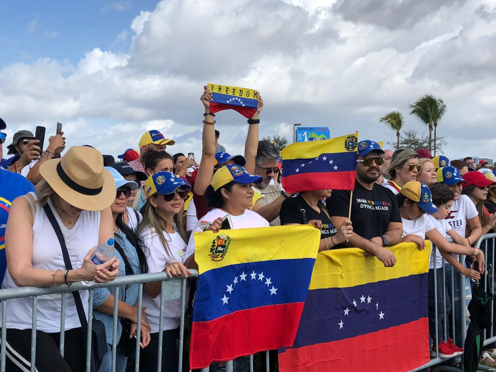 Several sympathizers of the government in charge met in Doral, Florida, to demand the exit of the power of Nicolás Maduro and his government.